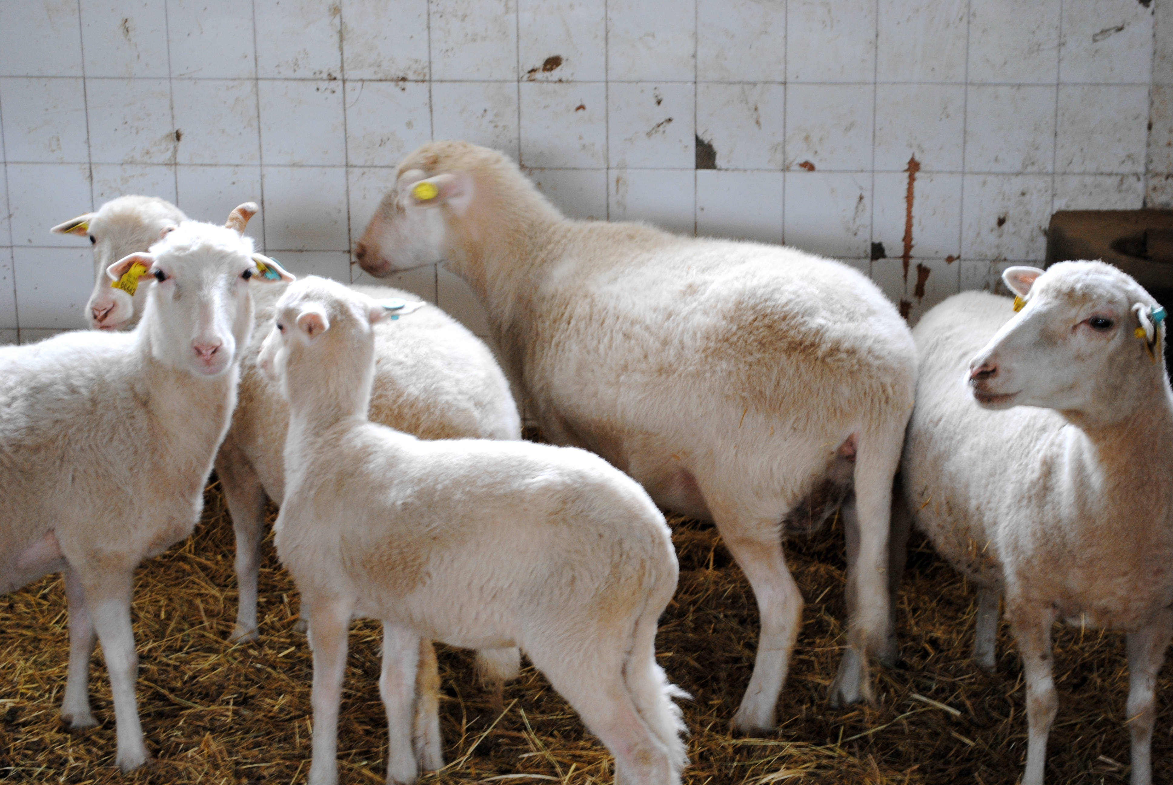 See title.